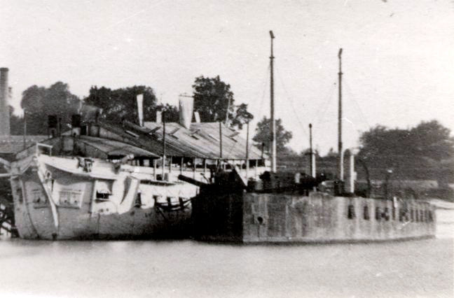 The Paixhans (Seen to the right) belonged to the French Palestro class of armoured floating batteries.